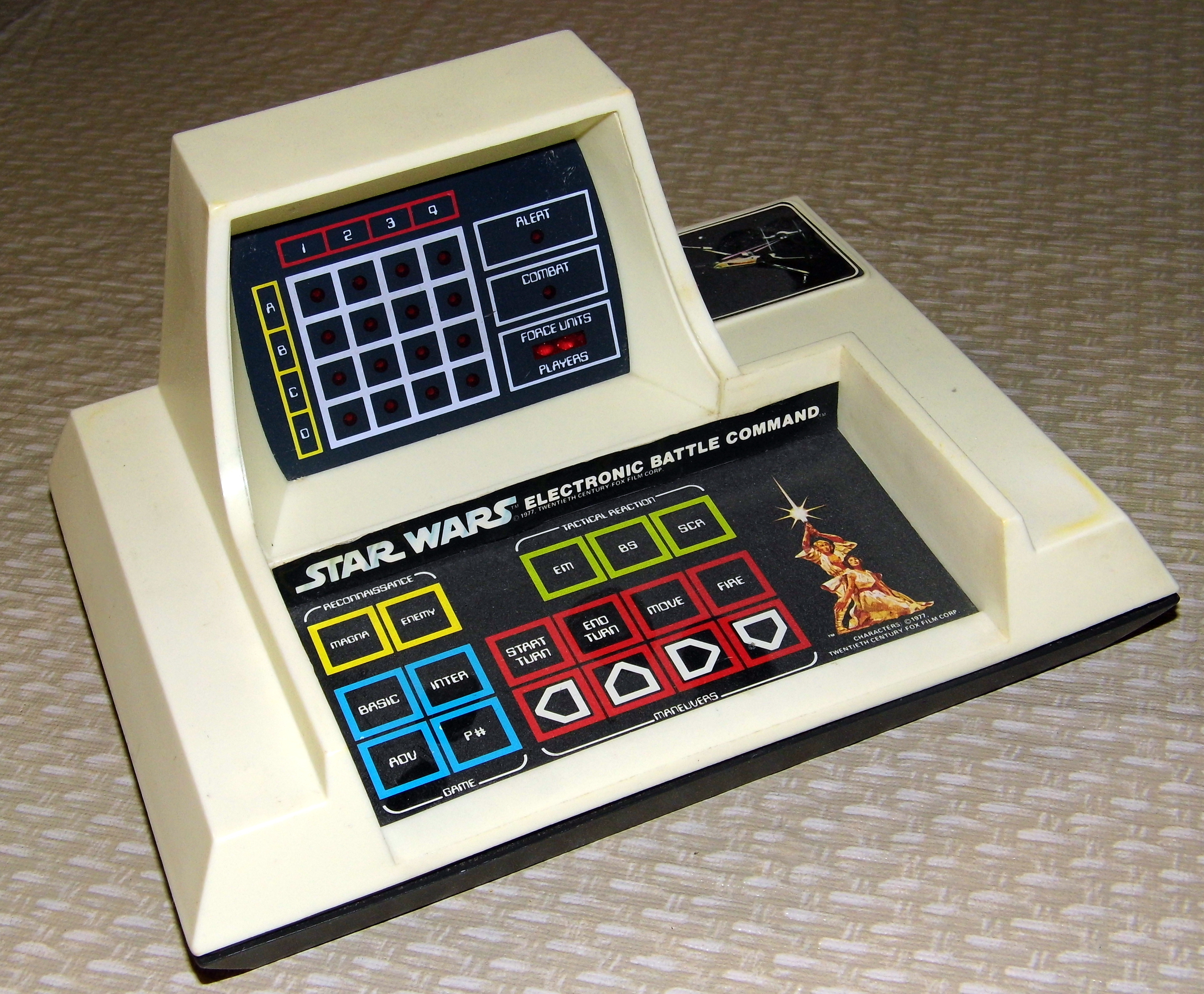 Vintage Star Wars Electronic Battle Command Electronic Game, Made In Hong Kong, Copyright 1979 By CPG Products Corp., Cat. No. 40370 A good source of information on vintage handheld electronic games is the Electronic Handheld Game Museum .